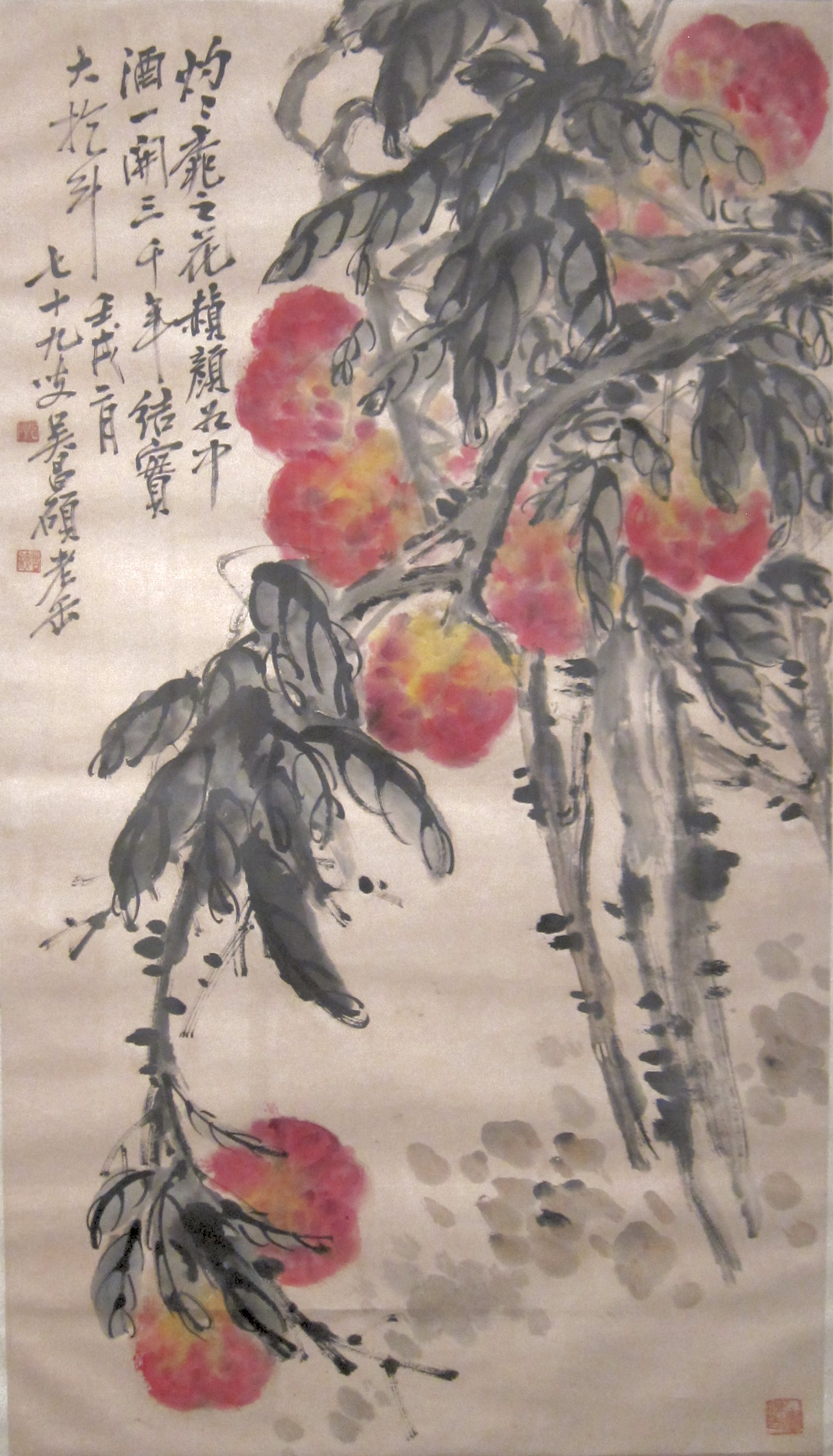 'Peaches', ink and color painting on paper by Wu Changshuo (1844-1927).jpg.JPG